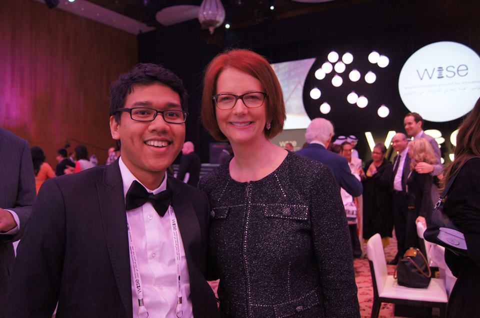 Muhammad Iman Usman, ASEAN Young Ambassador from Indonesia with Julia Gillard